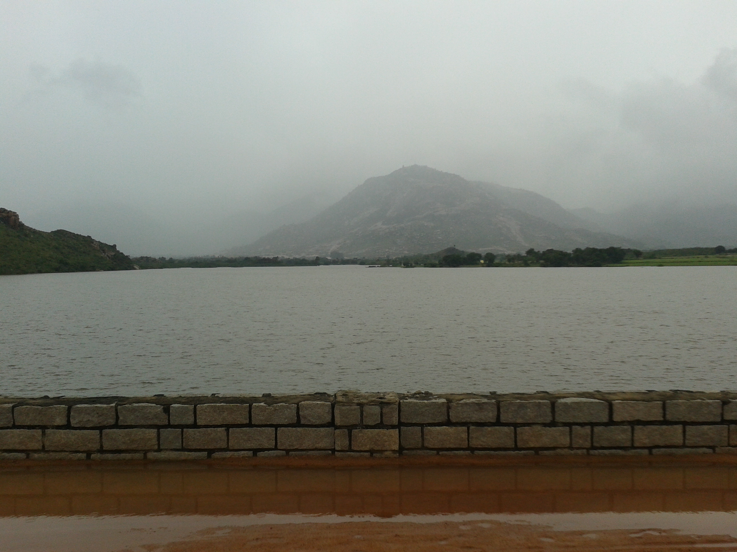 This is a Kushavathi reservoir